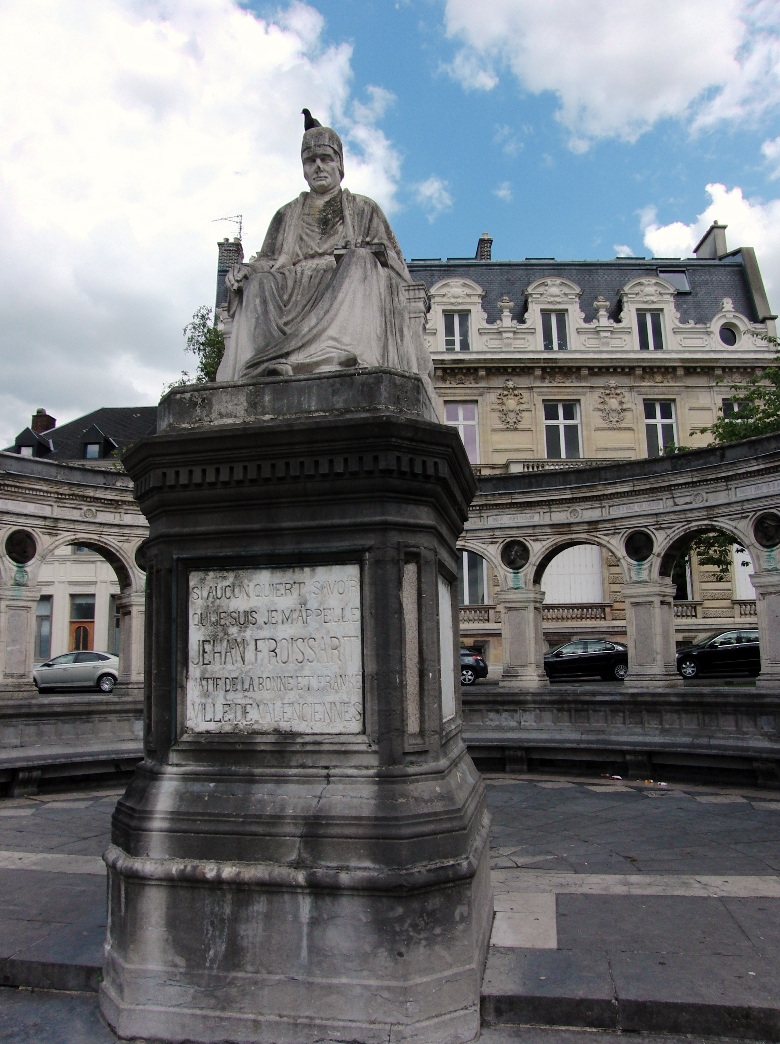 Valenciennes (France), Place Froissart - Statue of Jehan Froissart (1337-1404).